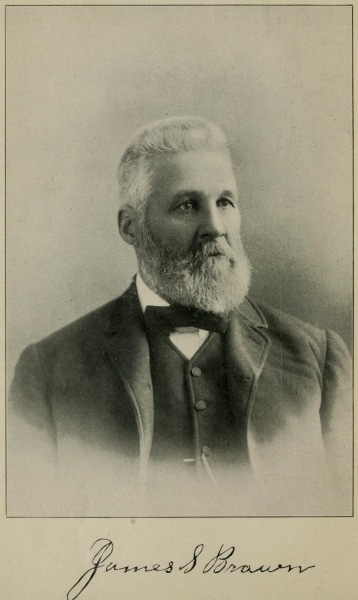 Portrait of James S. Brown